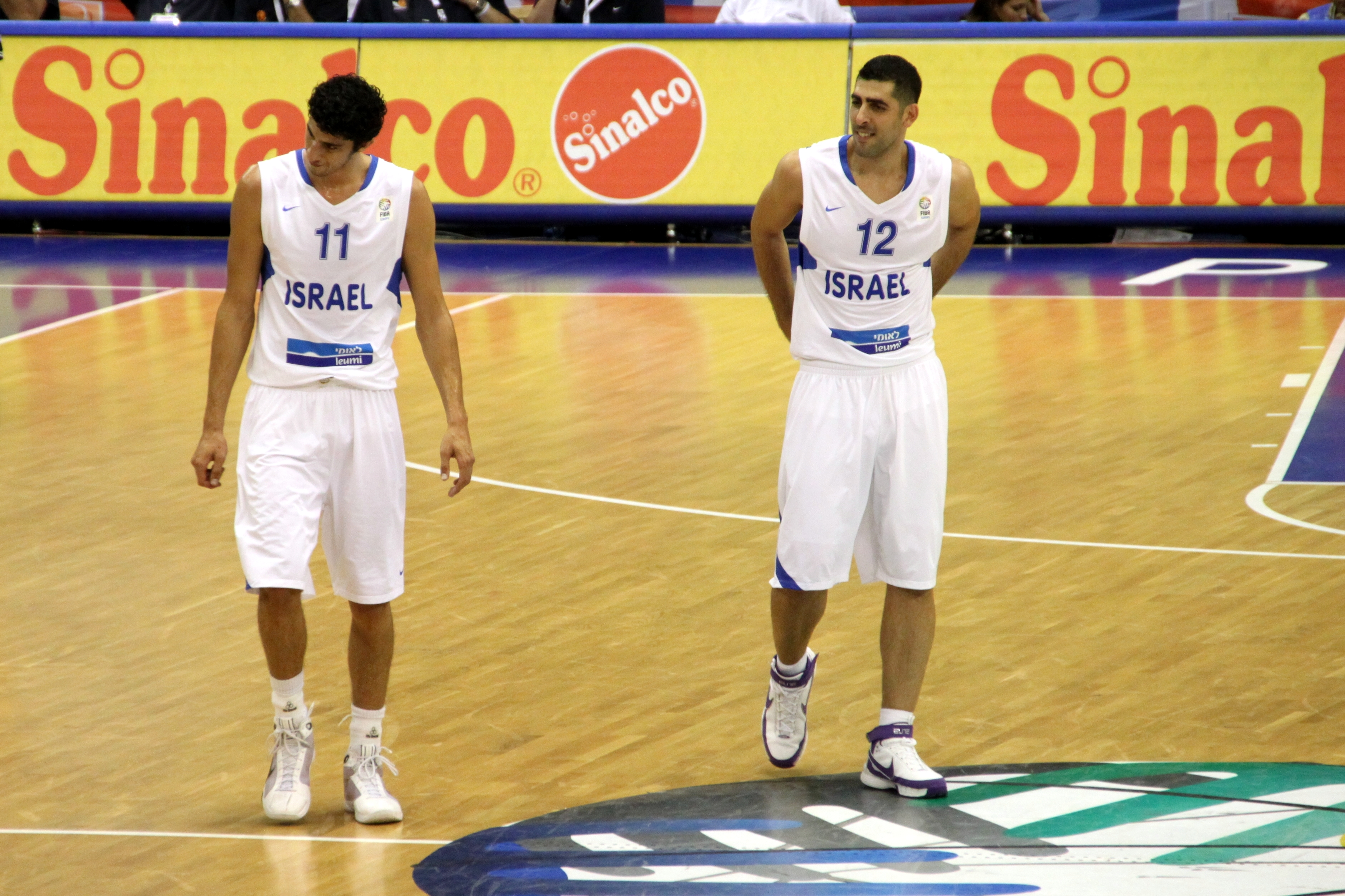 Lior Eliyahu and Moshe Mizrahi looking at the cheerleaders that were leaving at that moment... [Israel 80-106 Greece, Eurobasket 2009, Poland]